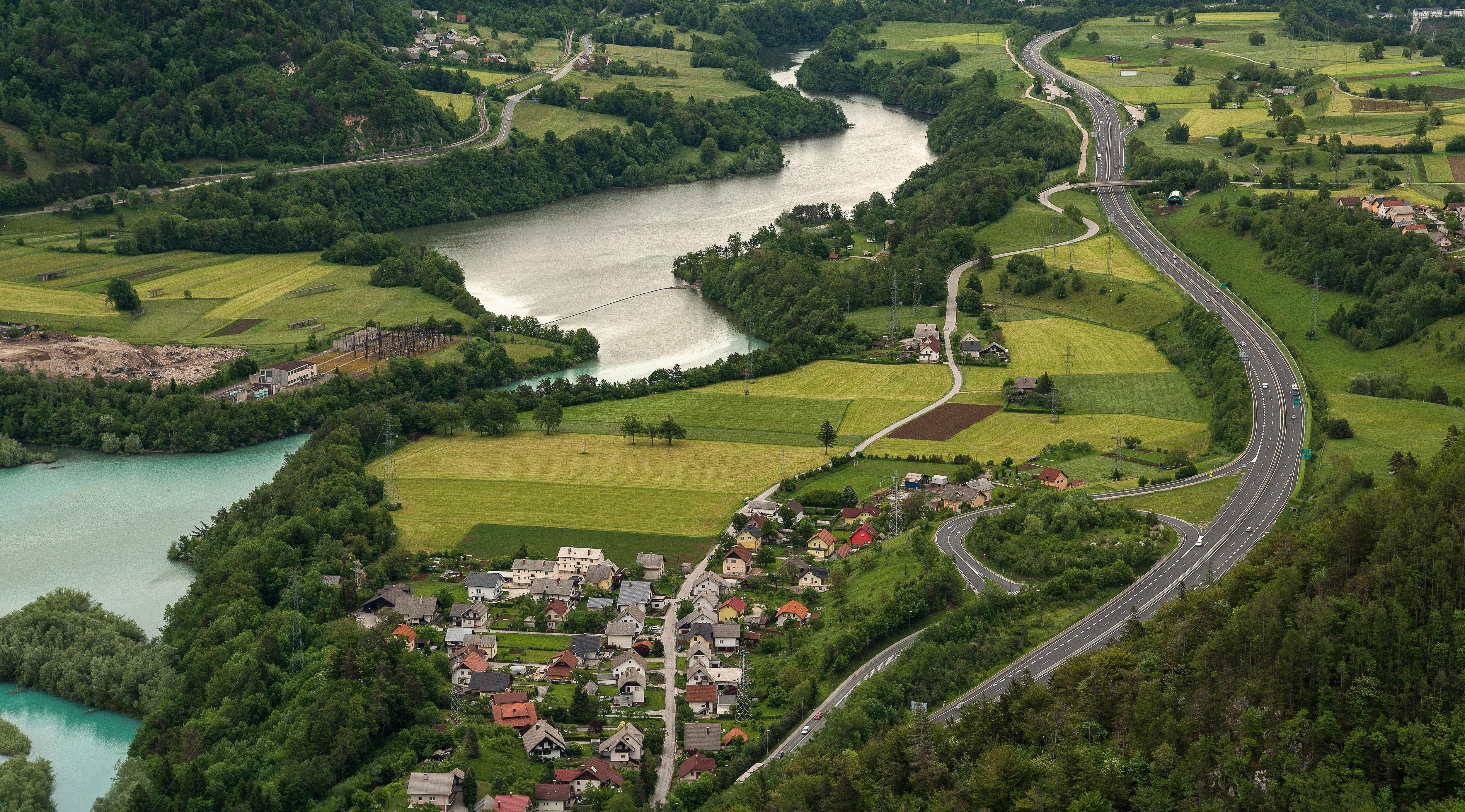 A2 Motorway at Lipce, Jesenice, Slovenia, with Sava River on the left.